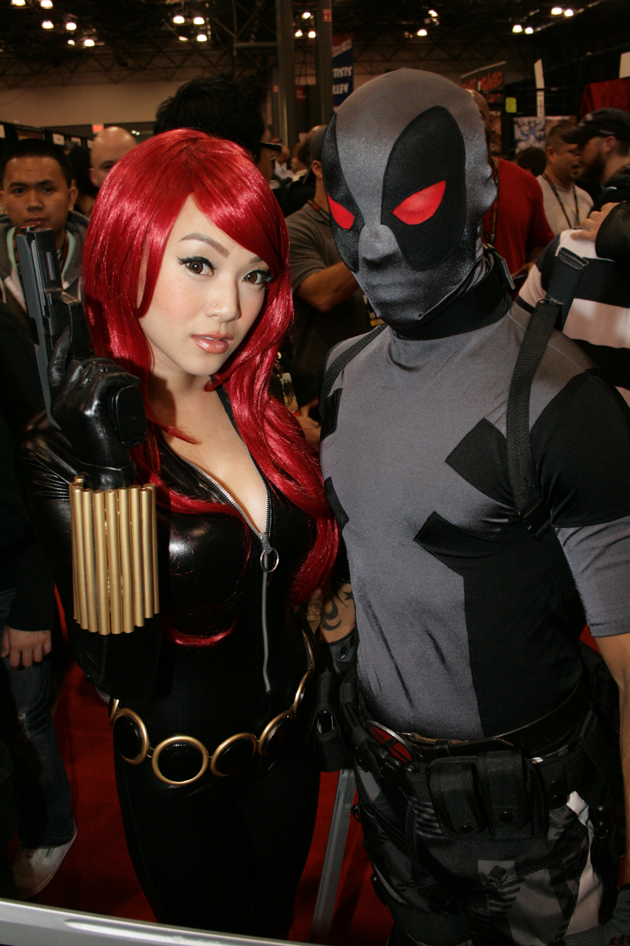 Cosplay of Black Widow, by Linda "Vampy Bit Me" Le, and Deadpool (both from Marvel Comics) at New York Comic Con 2011.